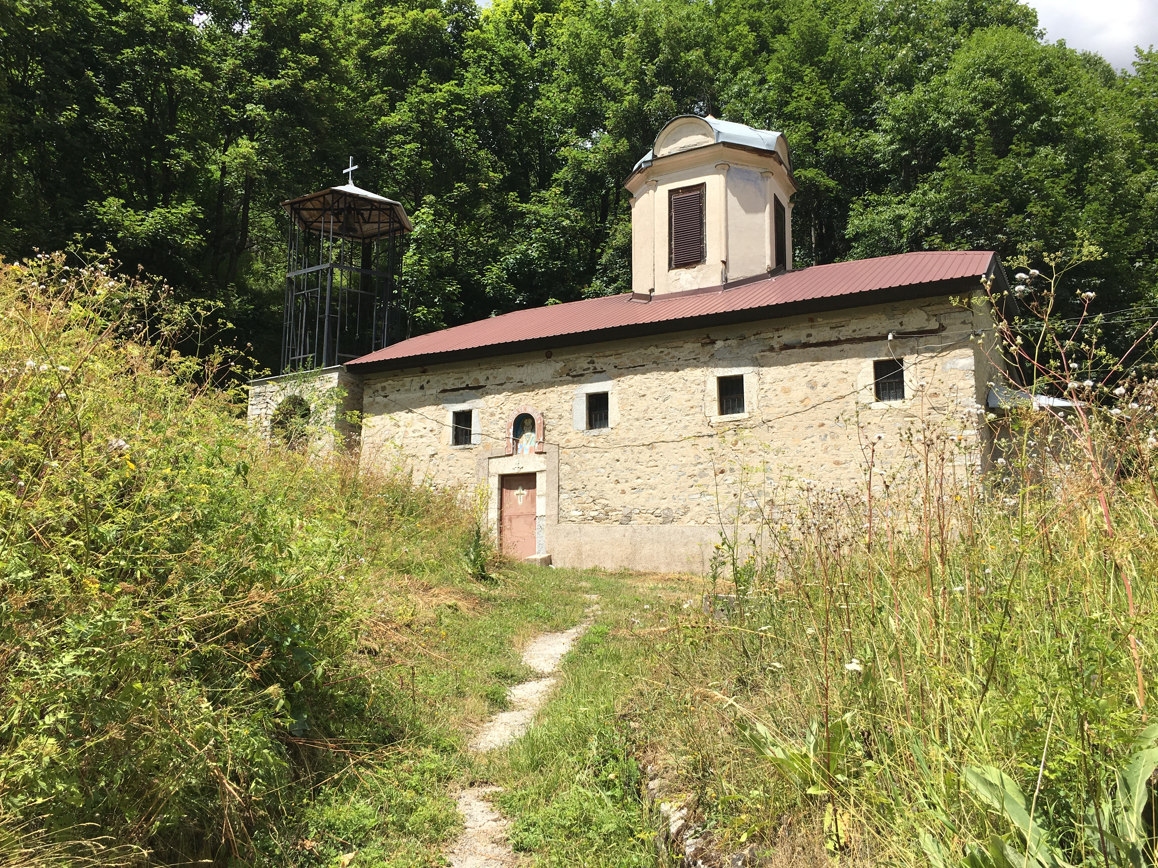 St. Nicholas Church in the village of Brodec